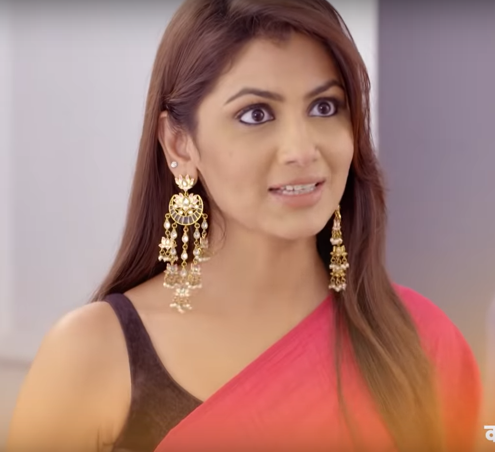 Sriti Jha Snapshot